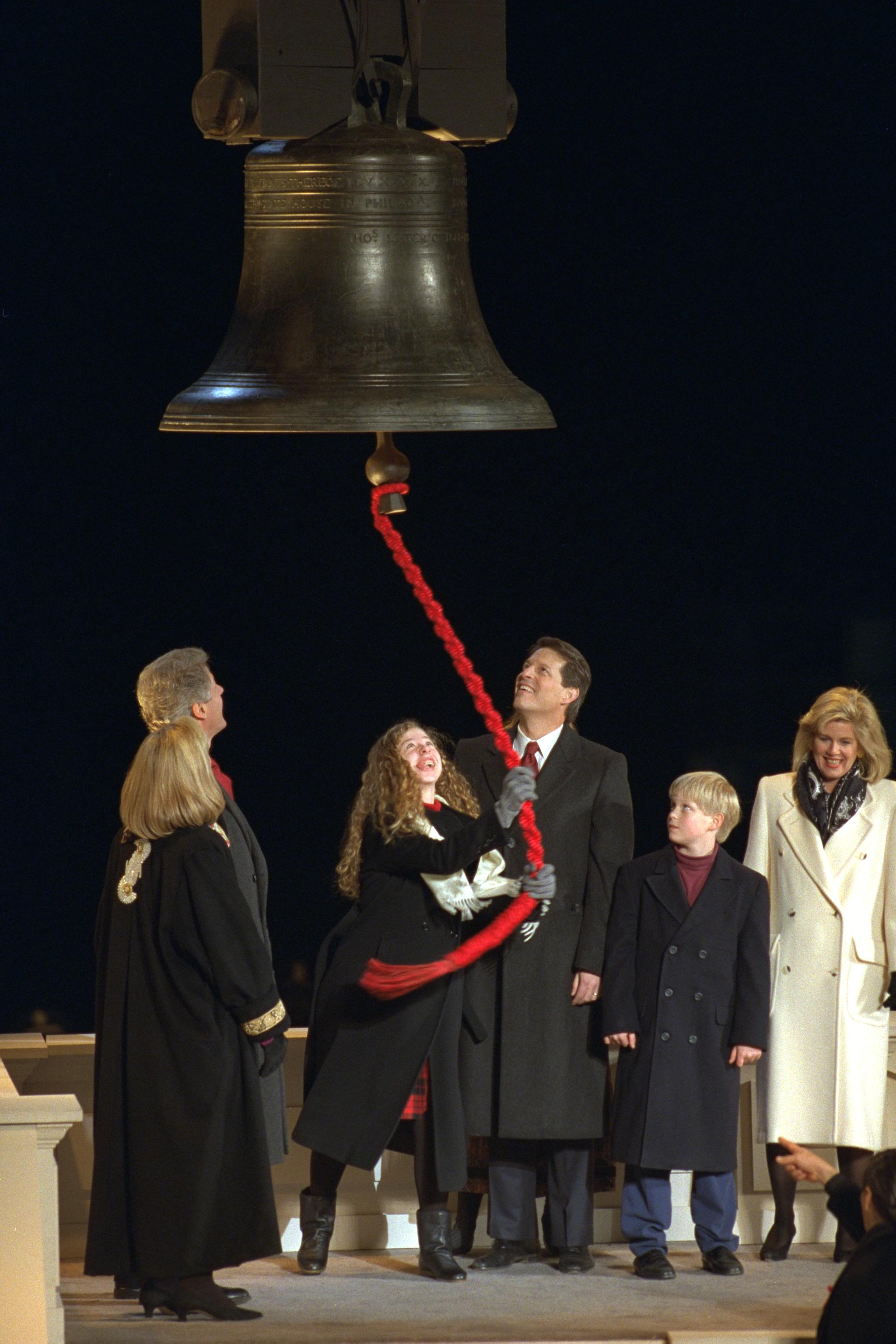 Description: While the Clintons and Gores watch, Chelsea Clinton rings a replica of the Liberty Bell during festivities kicking off the Clinton/Gore 1993 Inaugural events. At the stroke of 6 p.m., Clinton and Gore grasped the red rope attached to the bell and led the nation in a bell ringing ceremony. Clinton's daughter, Chelsea, kept up the ringing long after her father let go of the rope. Creator/Photographer: Smithsonian Photographer Medium: C-type print Culture: American Date: 1993 Persistent URL: [1] Repository: Smithsonian Institution Archives/Smithsonian Photographic Services Accession number: 847152BE8BAB4CC1